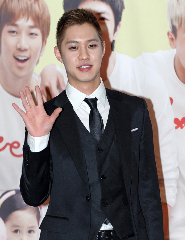 Seungho (MBLAQ) at the press conference of KBS Joy Hello Baby, on January 18, 2012